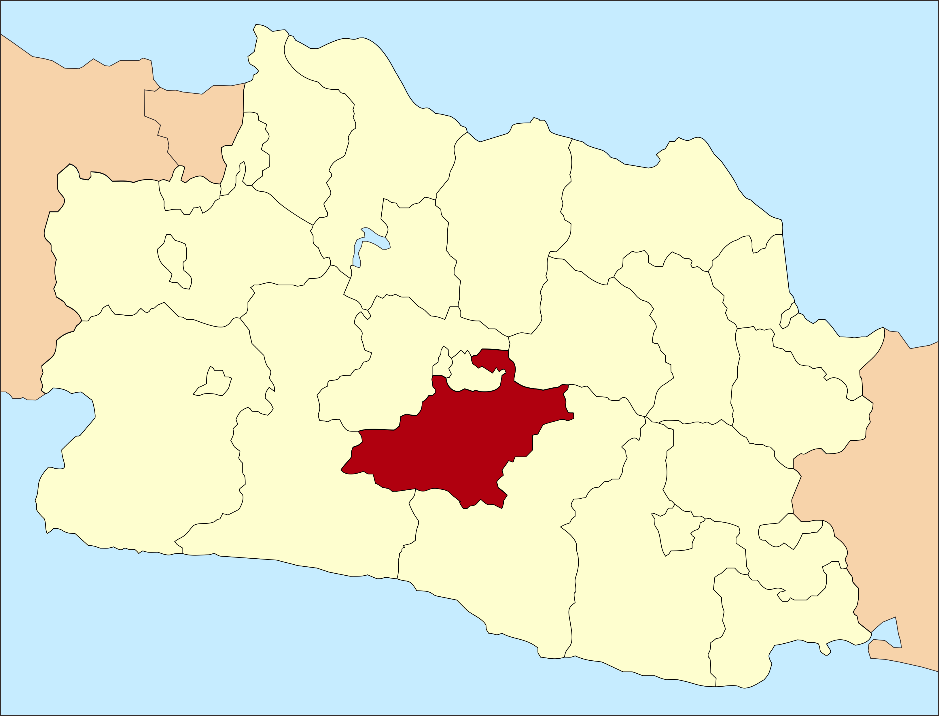 Locator map of Bandung Regency, West Java